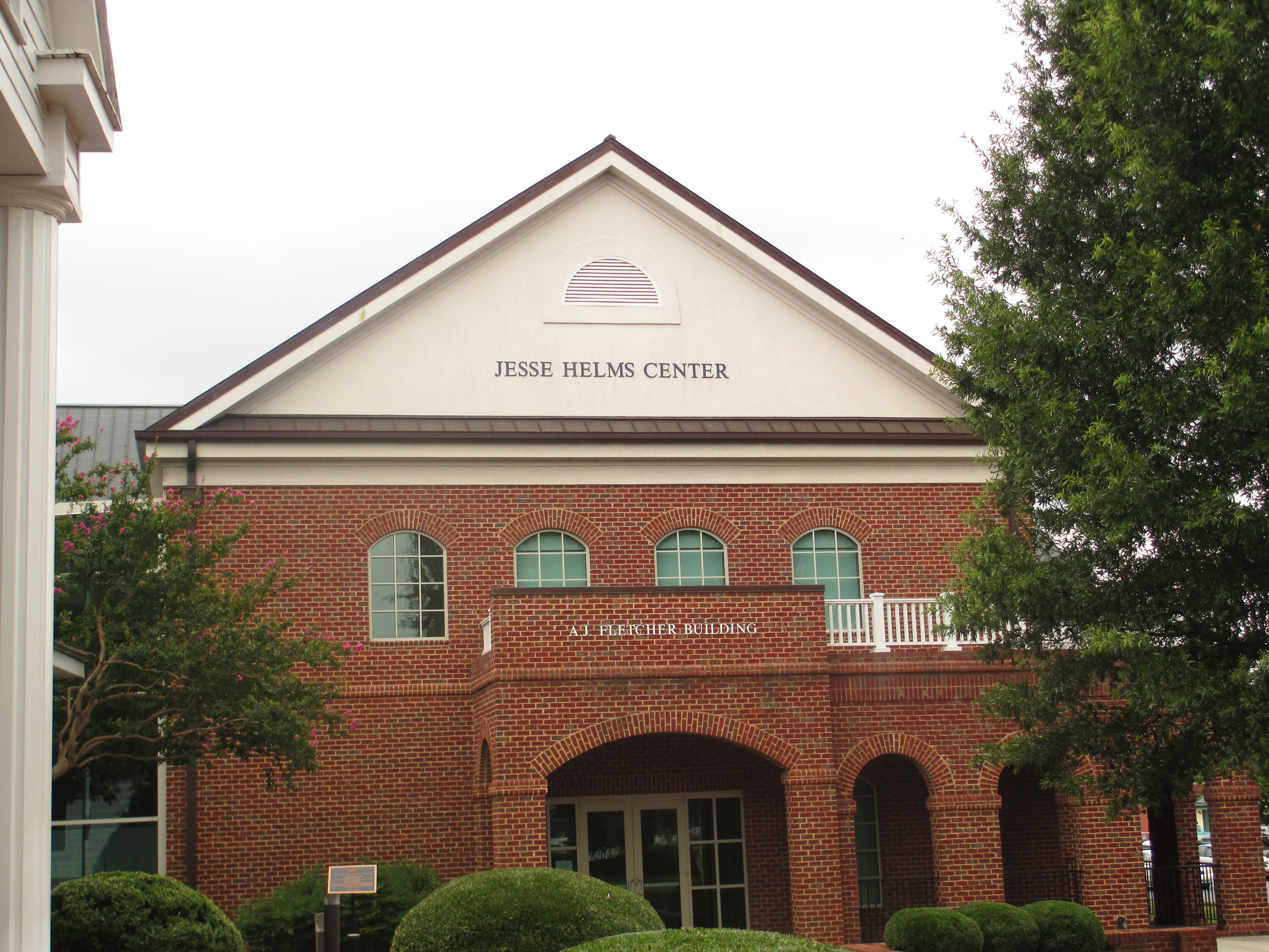 I took photo at Jesse Helms Center in Wingate, NC, with Canon camera.